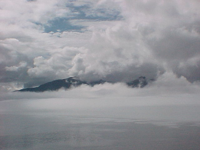 An island between fog and clouds. Location not specified.